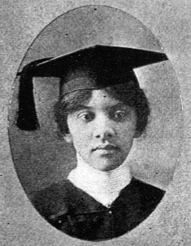 Vada Somerville, from a 1919 publication.